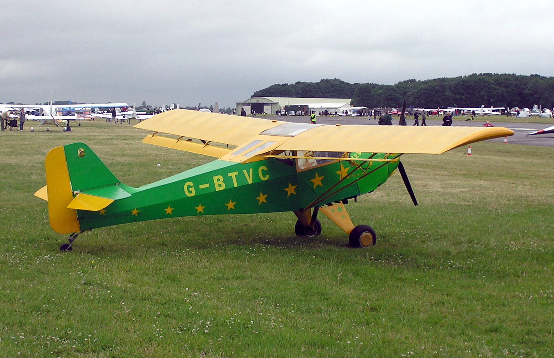 Denney Kitfox Model 2 at Kemble Airfield, Gloucestershire, England. Built 1992.